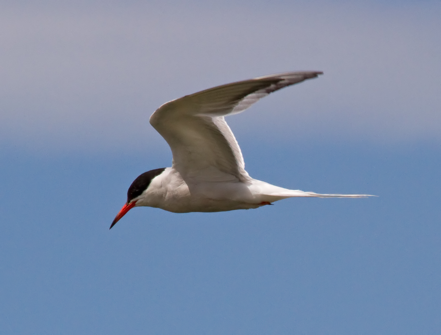 A Common Tern flying over Swan Pool, West Bromwich, England. It appears to be looking down as it flying probably because it is looking for food.